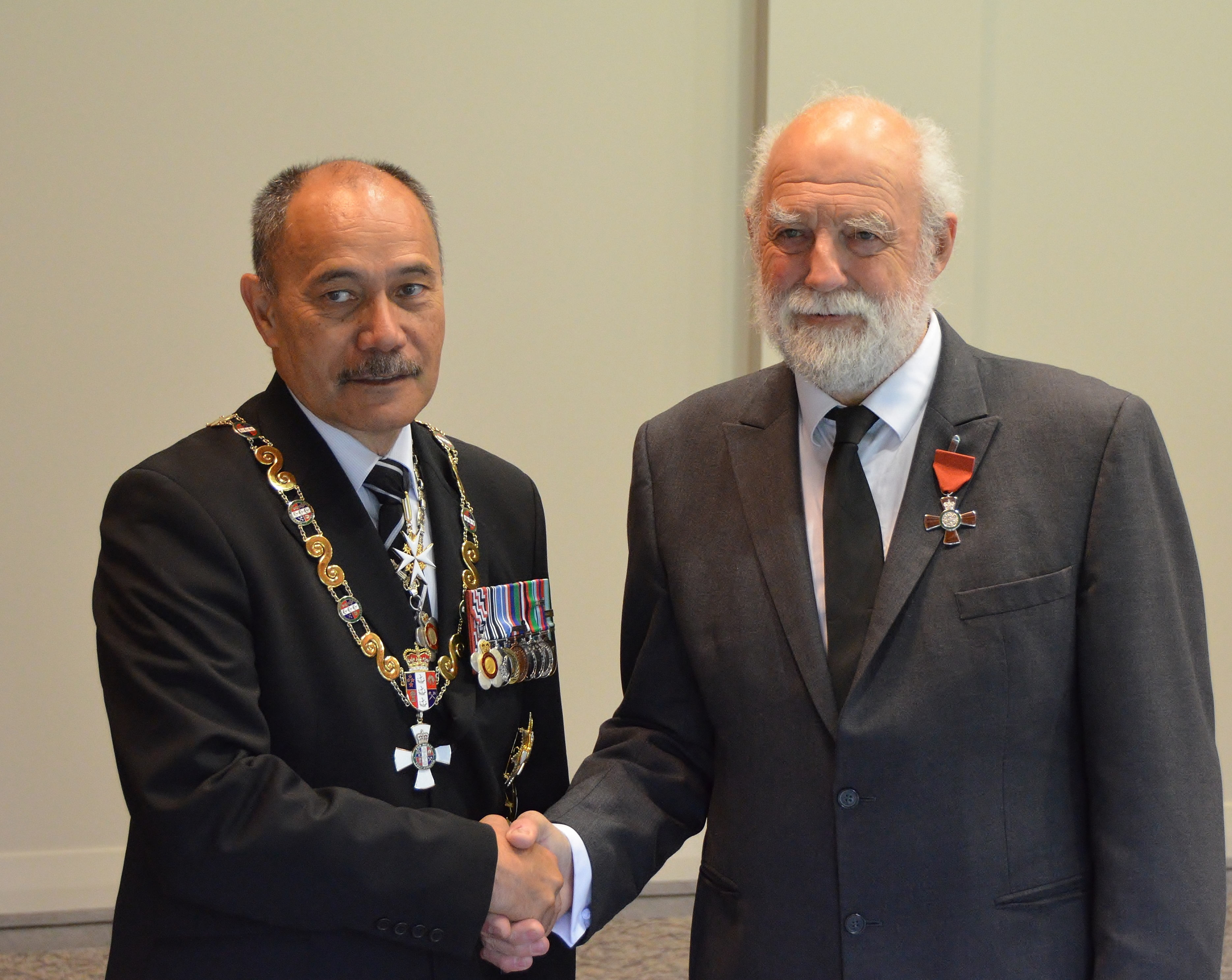 Peter Lange (right), of Auckland, after his investiture as MNZM, for services to ceramic arts, by the Governor-General, Sir Jerry Mateparae, on 28 April 2016